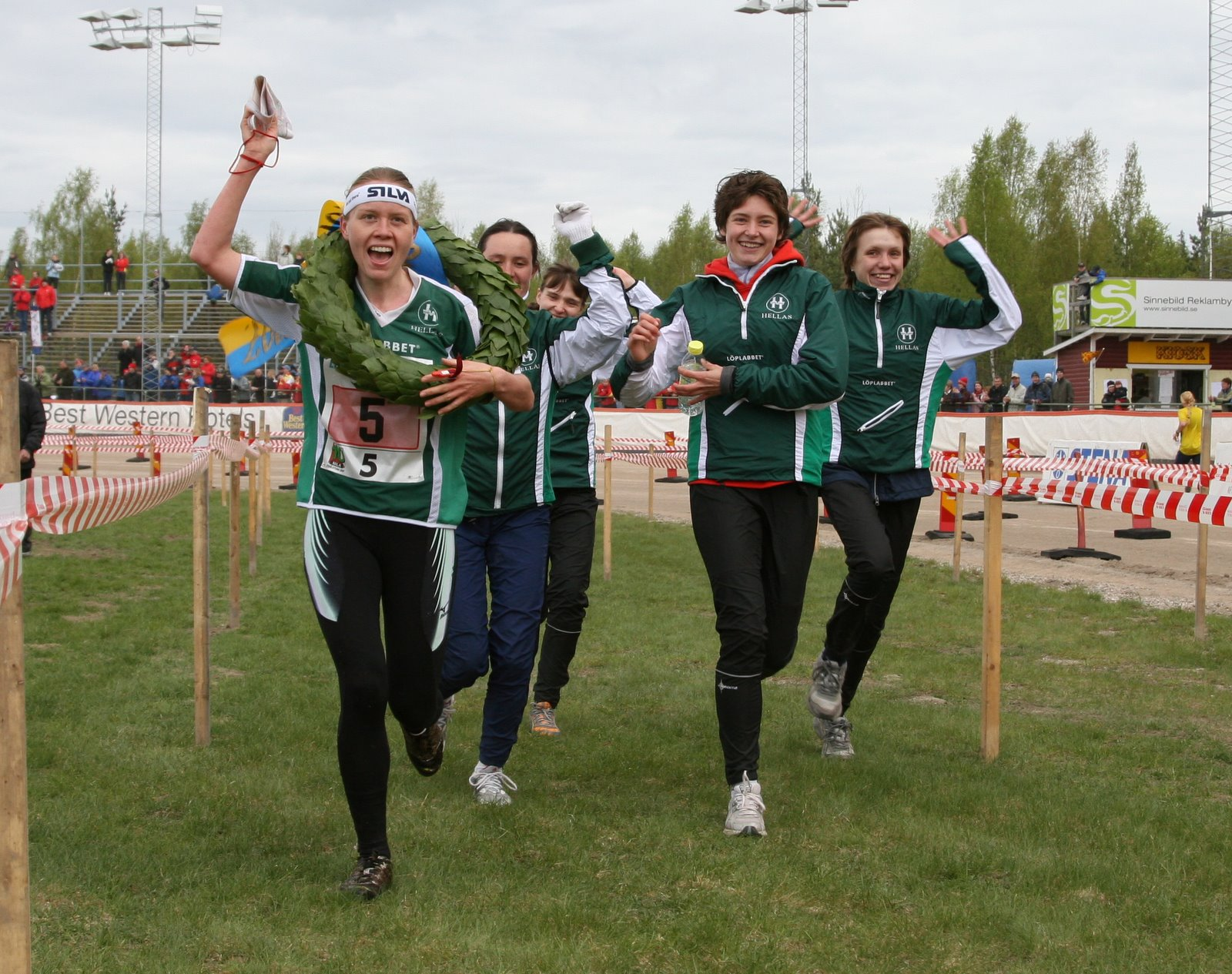 Club Hellas is the winner of Tiomila 2007